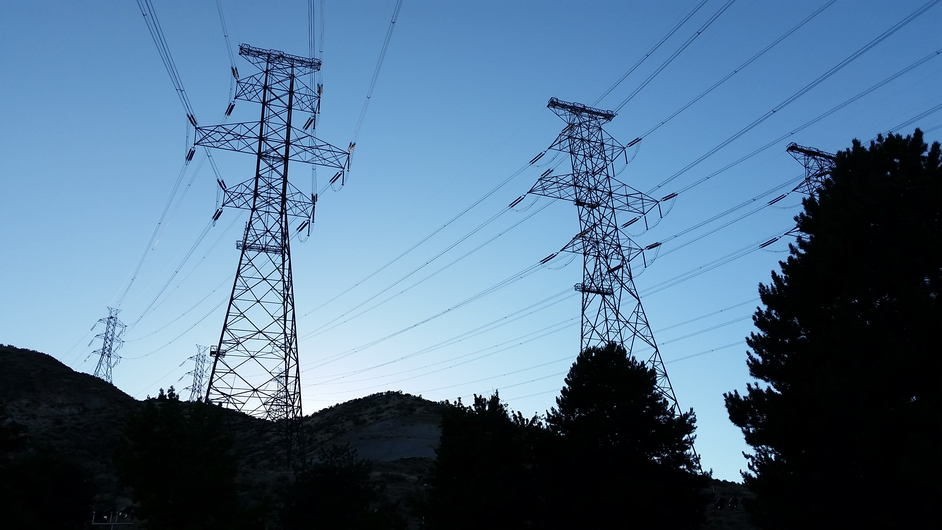 500 kV three-phase AC transmission lines at Grand Coulee Dam, Washington